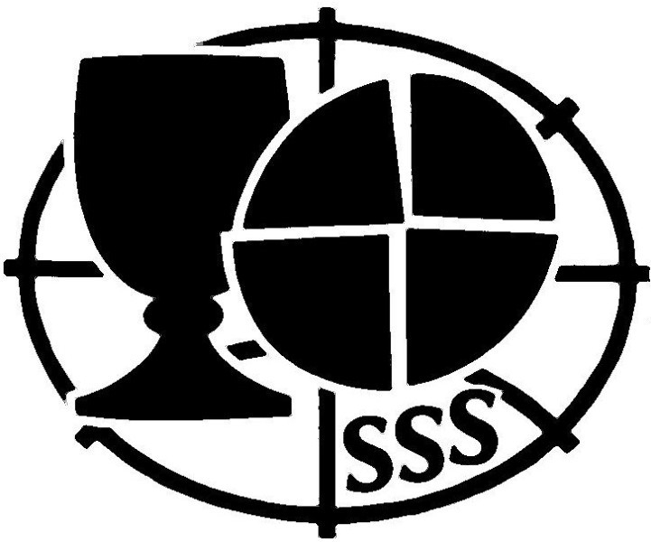 Sociestas Sancitissimi Sacramenti